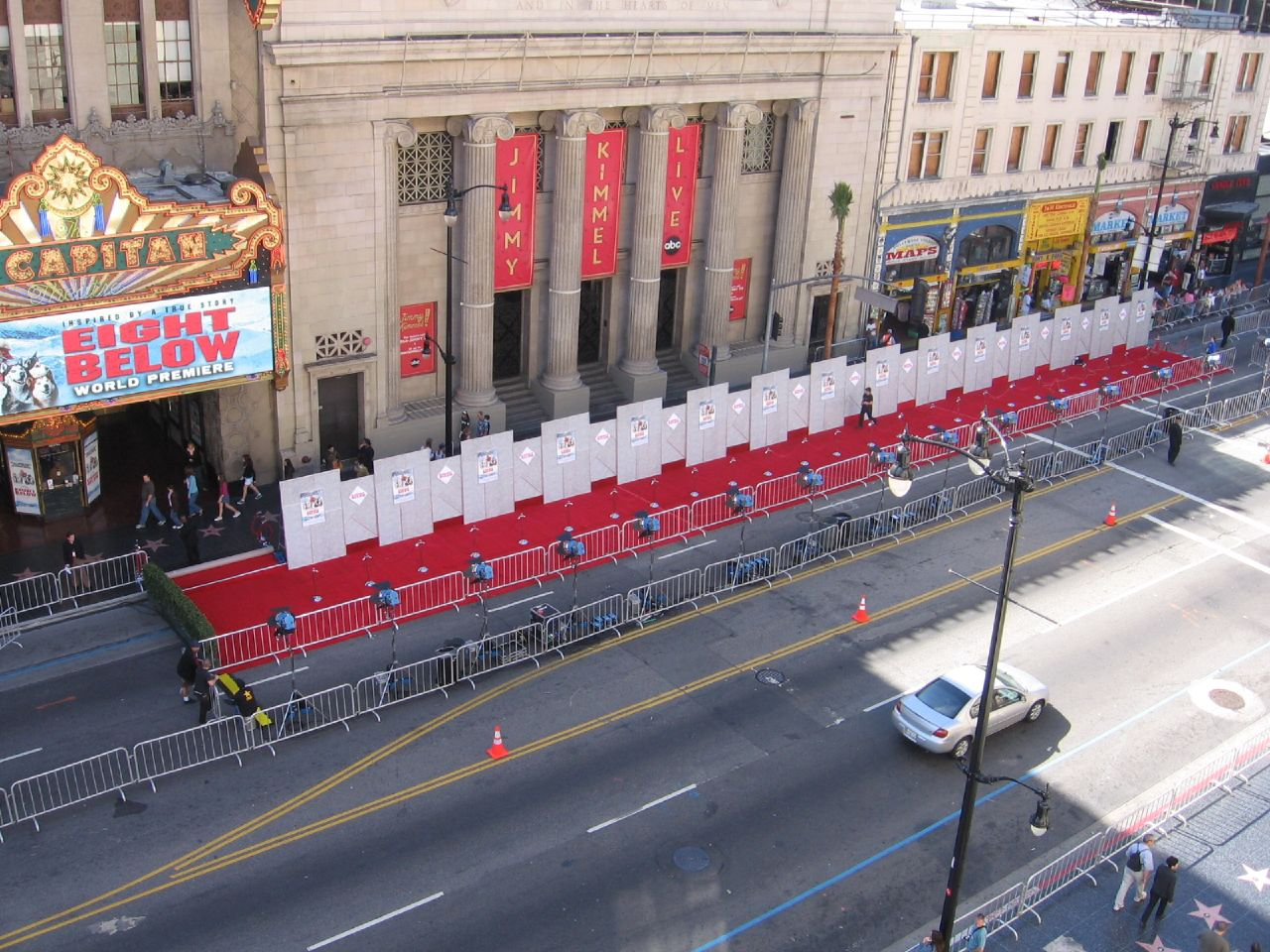 Movie Premiere Setup.